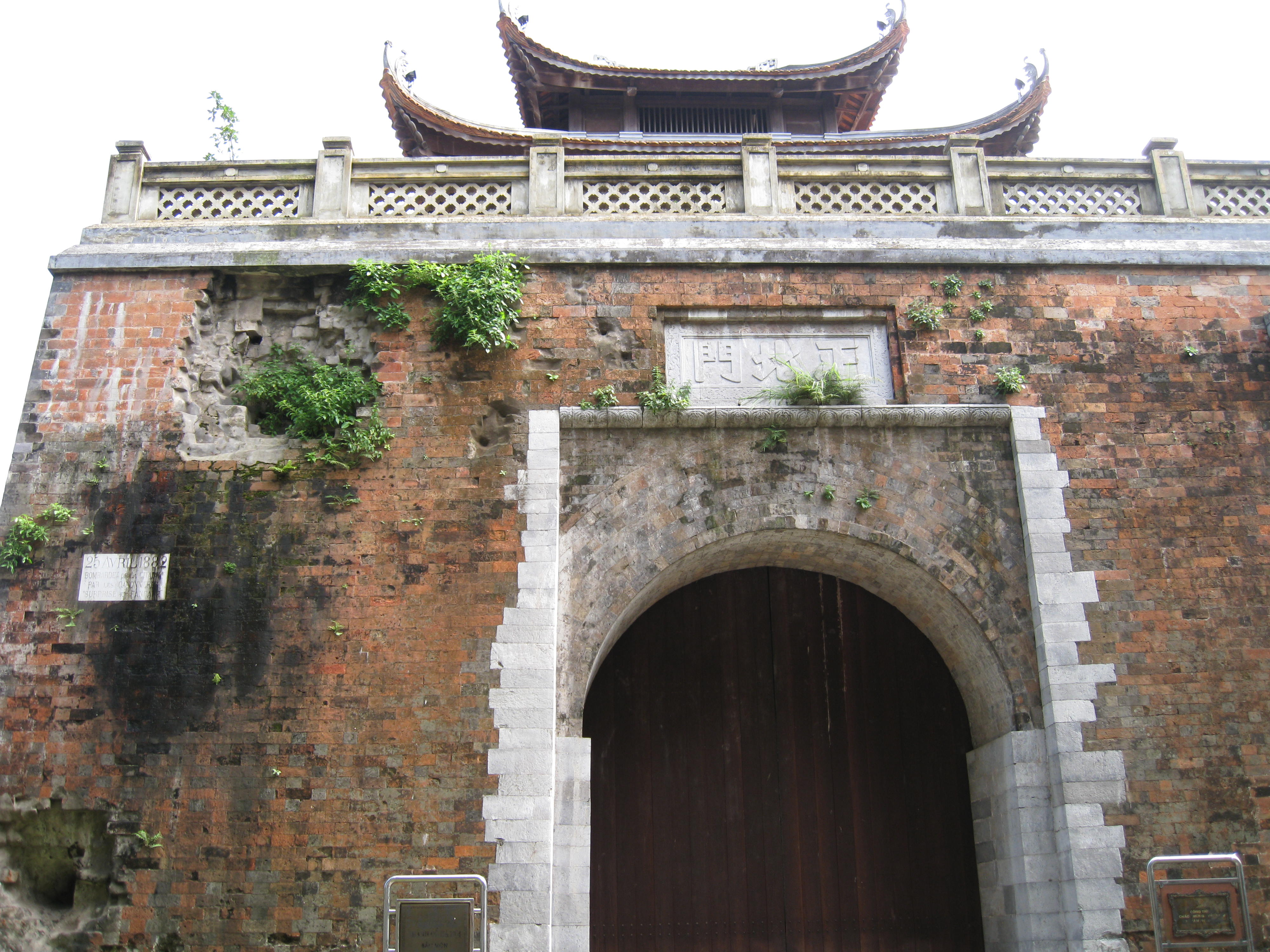 North Gate of Hanoi Citadel.